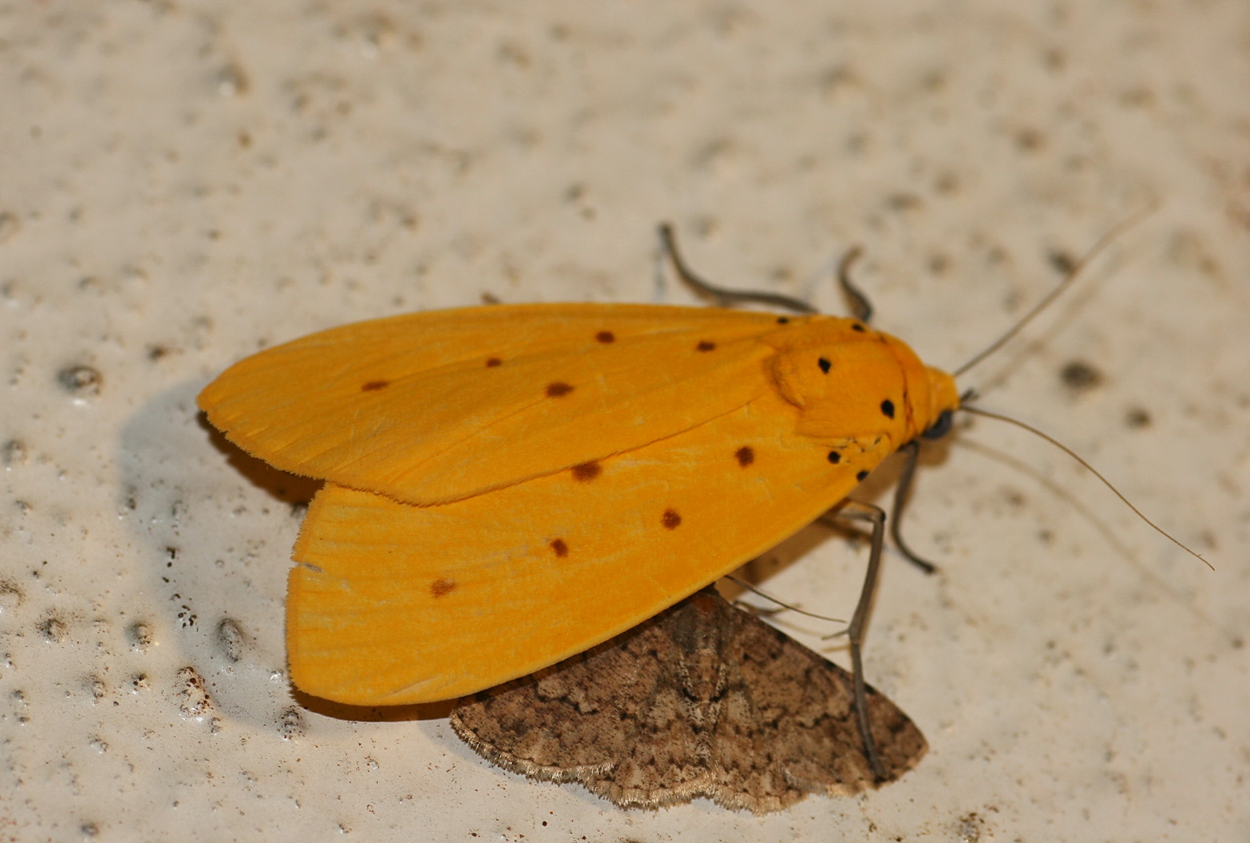 Malaysia, Fraser's Hill, March 2009